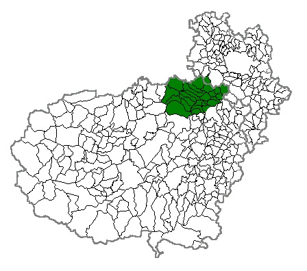 Map of Roero